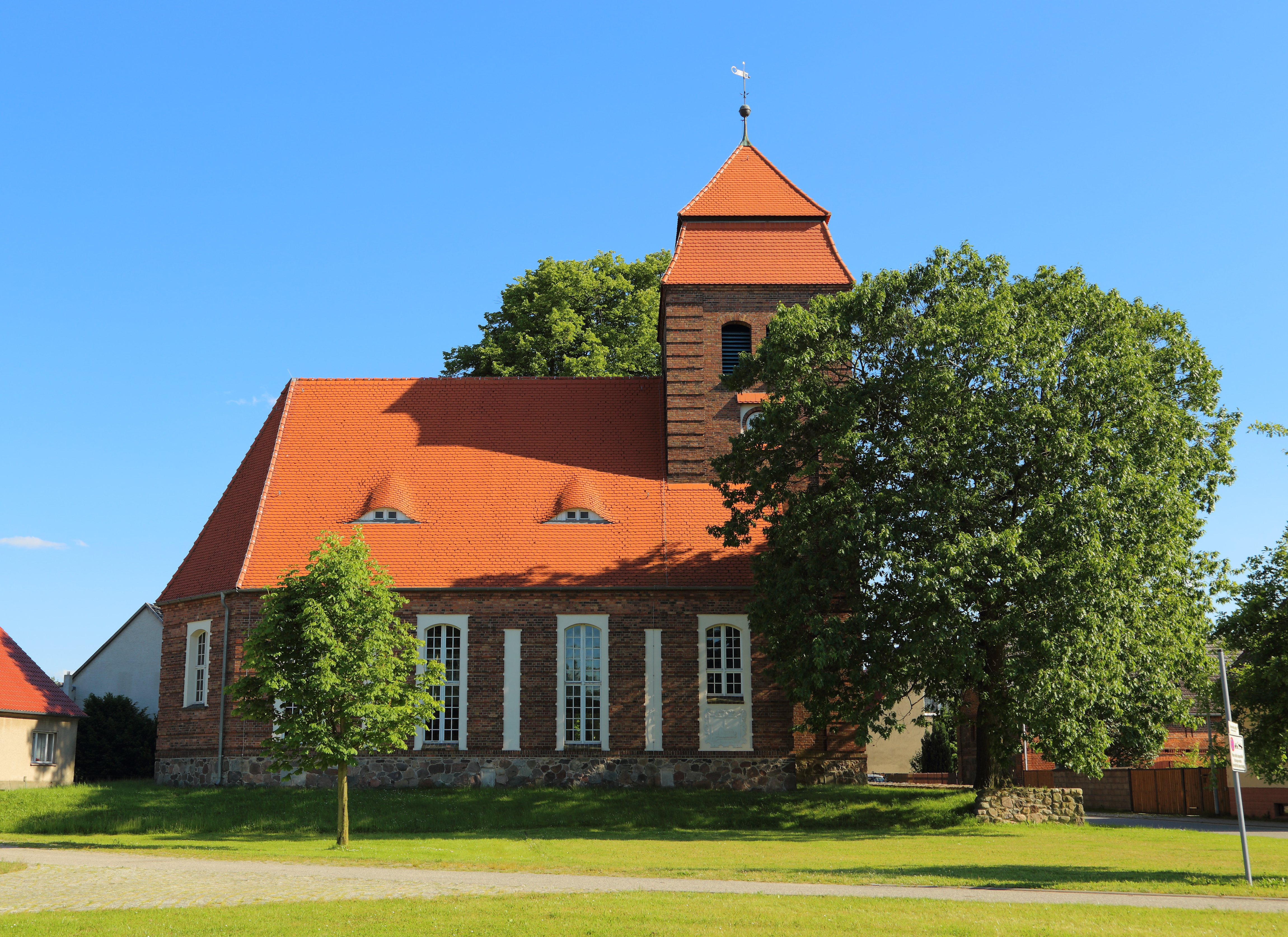 The Protestant Village Church (Dorfkirche) of Pinnow, district of Schenkendöbern, Landkreis Spree-Neiße, Brandenburg, Germany.